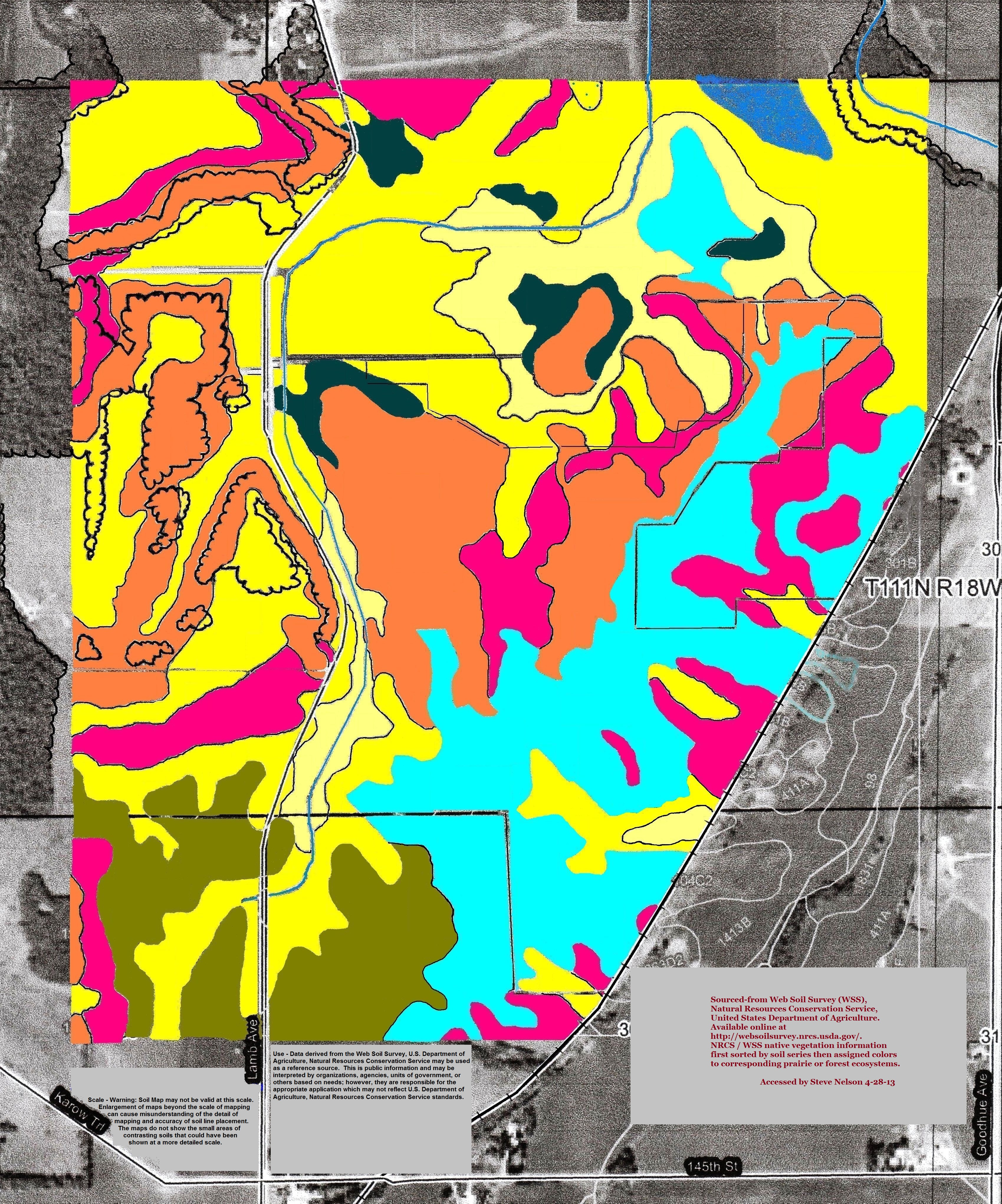 This updated map shows native vegetation of private lands near Dennison, southeast of Northfield, in Rice County Minnesota.